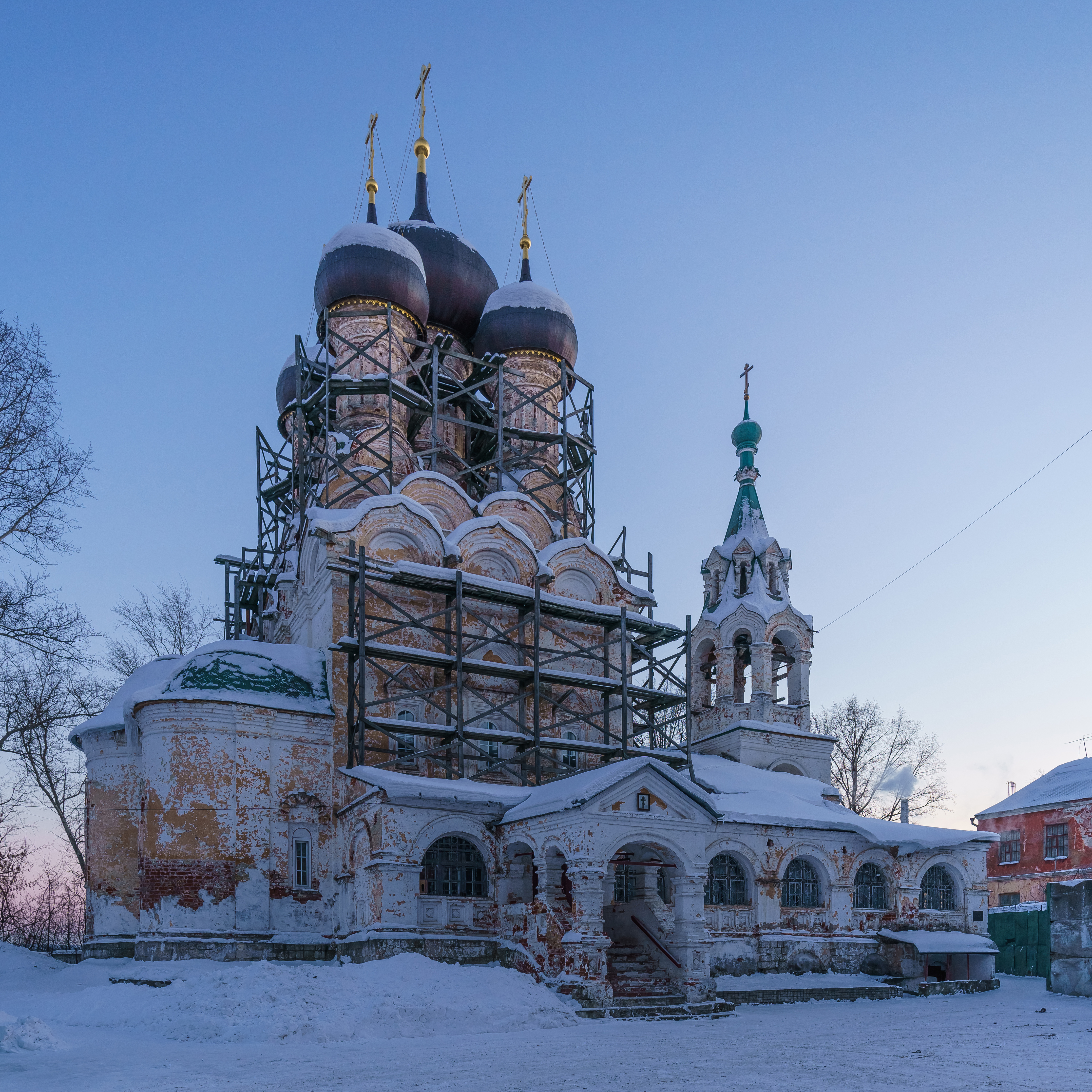 Assumption Church (Old Believers Church) in Vladimir, Russia